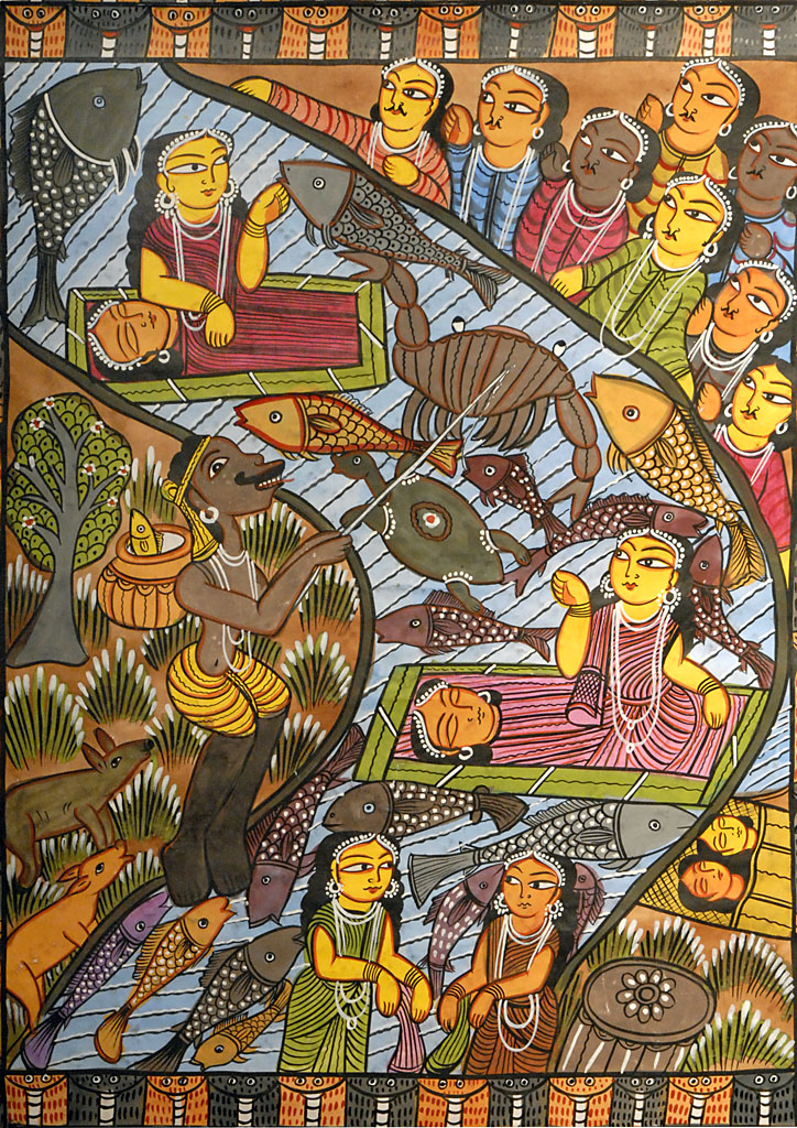 Preview of Manasa Mangal Mayne Chitrakar (Naya / Bengal): The exhibition "Singing Pictures, art and performance of Naya's Women" takes place at the National Museum of Ethnology in Lisbon from July 5 to December 31, 2007. L'exposition "Singing Pictures, art and performance of naya's women" se déroule au musée national d'ethnologie de Lisbonne du 5 juillet au 31 décembre 2007. le site du musée national d'ethnologie le site sur les peintures des femmes Naya